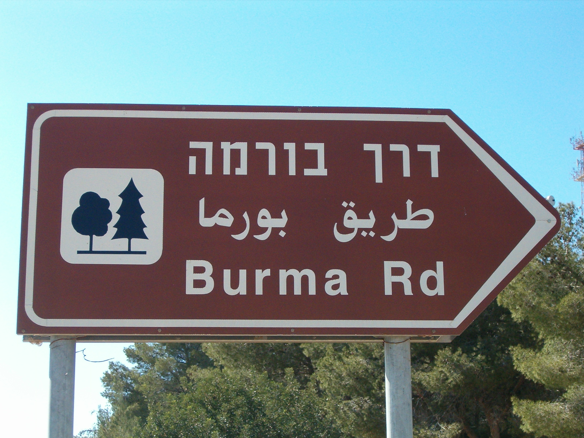 Burma road